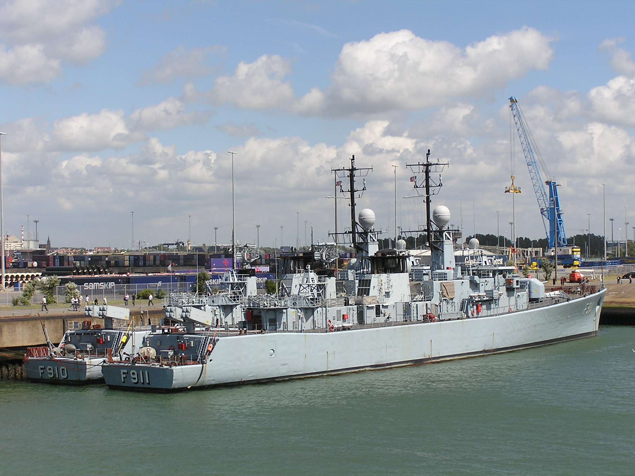 Wielingen (F910) at Zeebrugge Naval Festival, 28th July 2008.